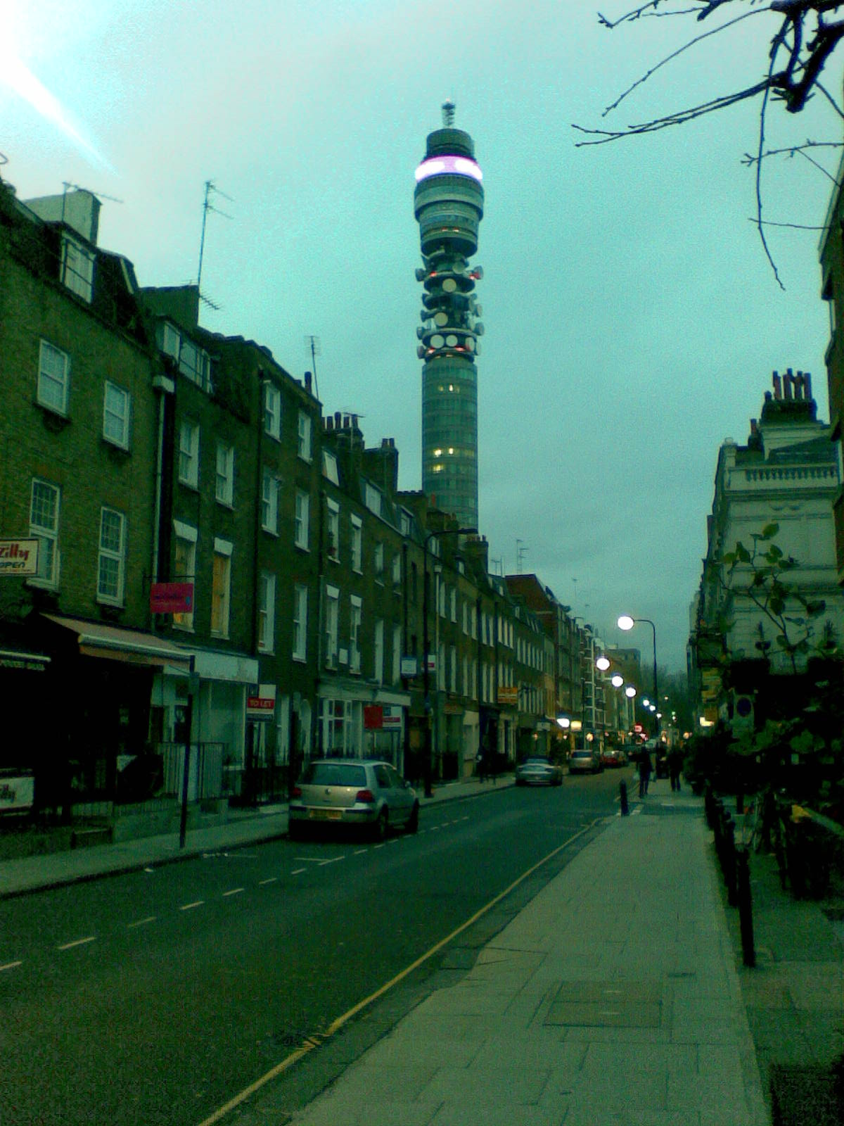 A view of the BT Tower in London looking southwards from the north end of Cleveland Street